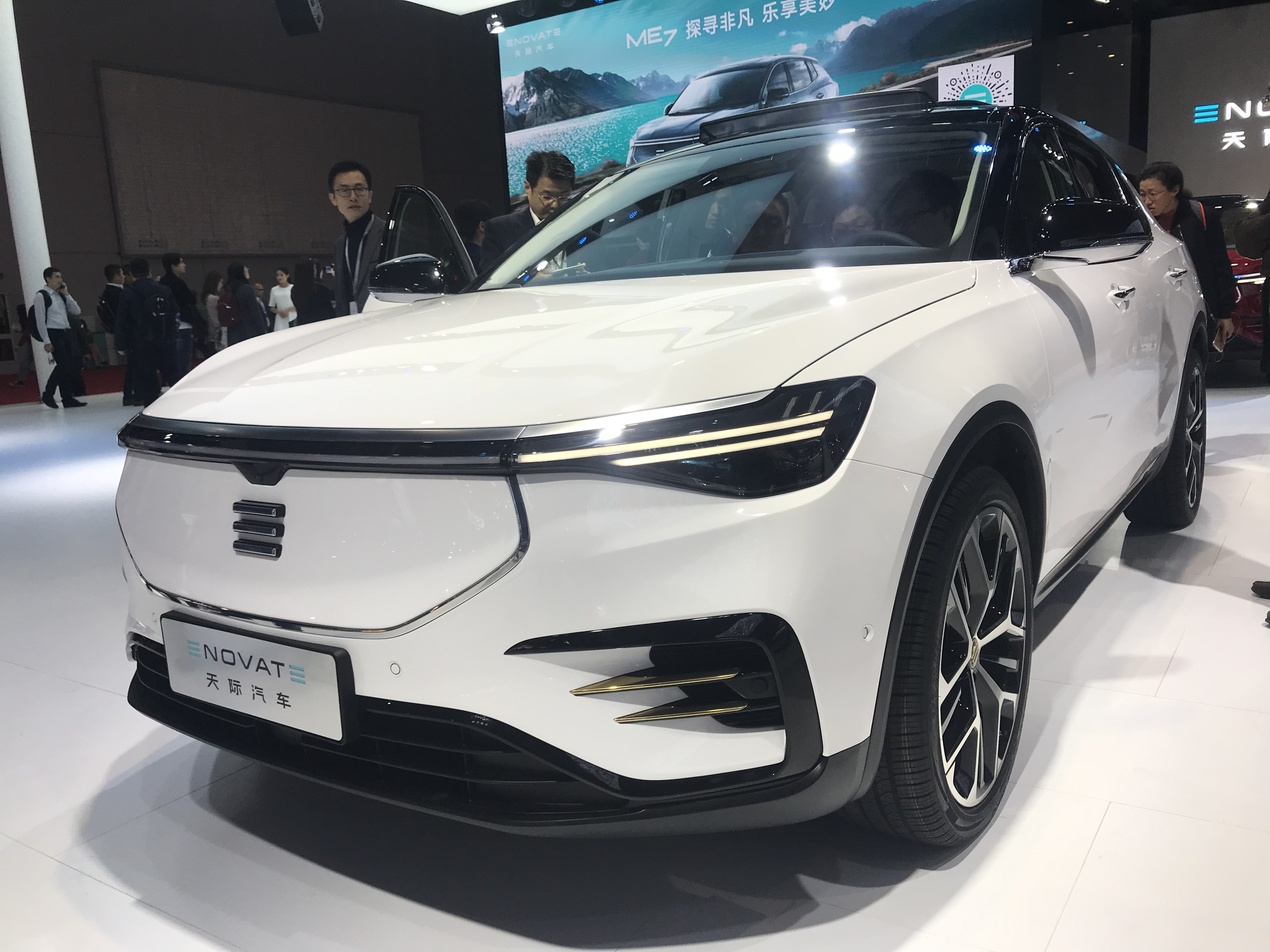 Enovate ME7 front